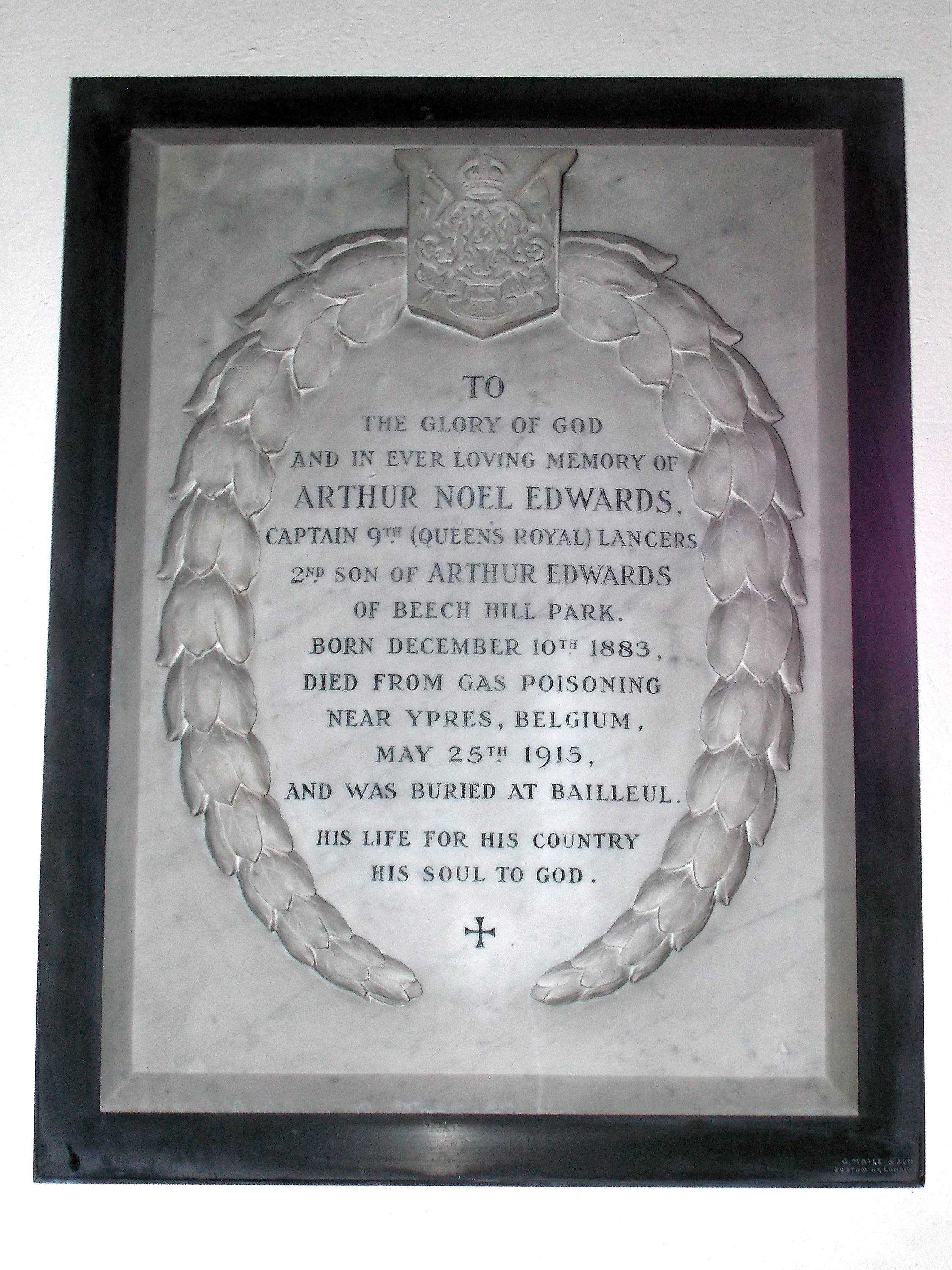 Marble memorial monument to Arthur Noel Edwards (1883 - 1915), on the nave south wall of Holy Innocents Church, High Beach (or High Beech), Essex, England.Software: file lens-corrected and optimized with DxO OpticsPro 10 Elite and Viewpoint 2, and further optimized with Adobe Photoshop CS2.